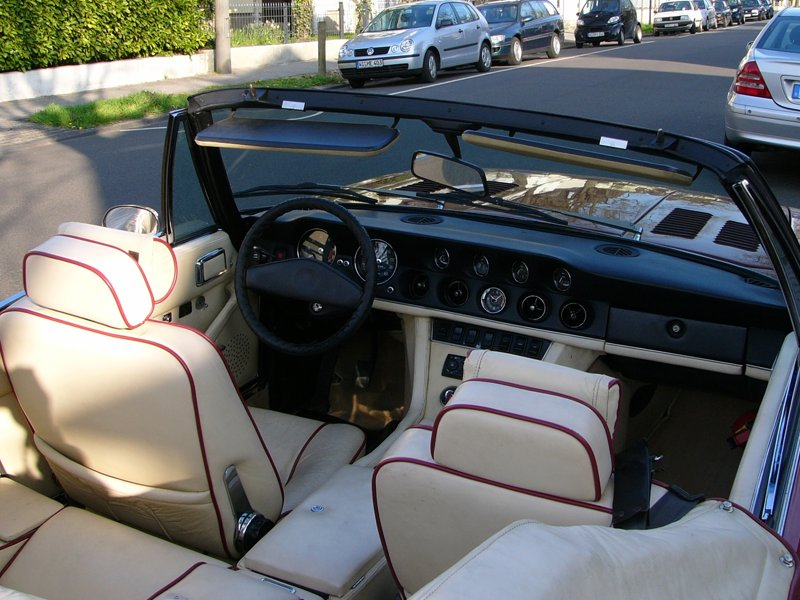 Dashboard 1974 Jensen Interceptor